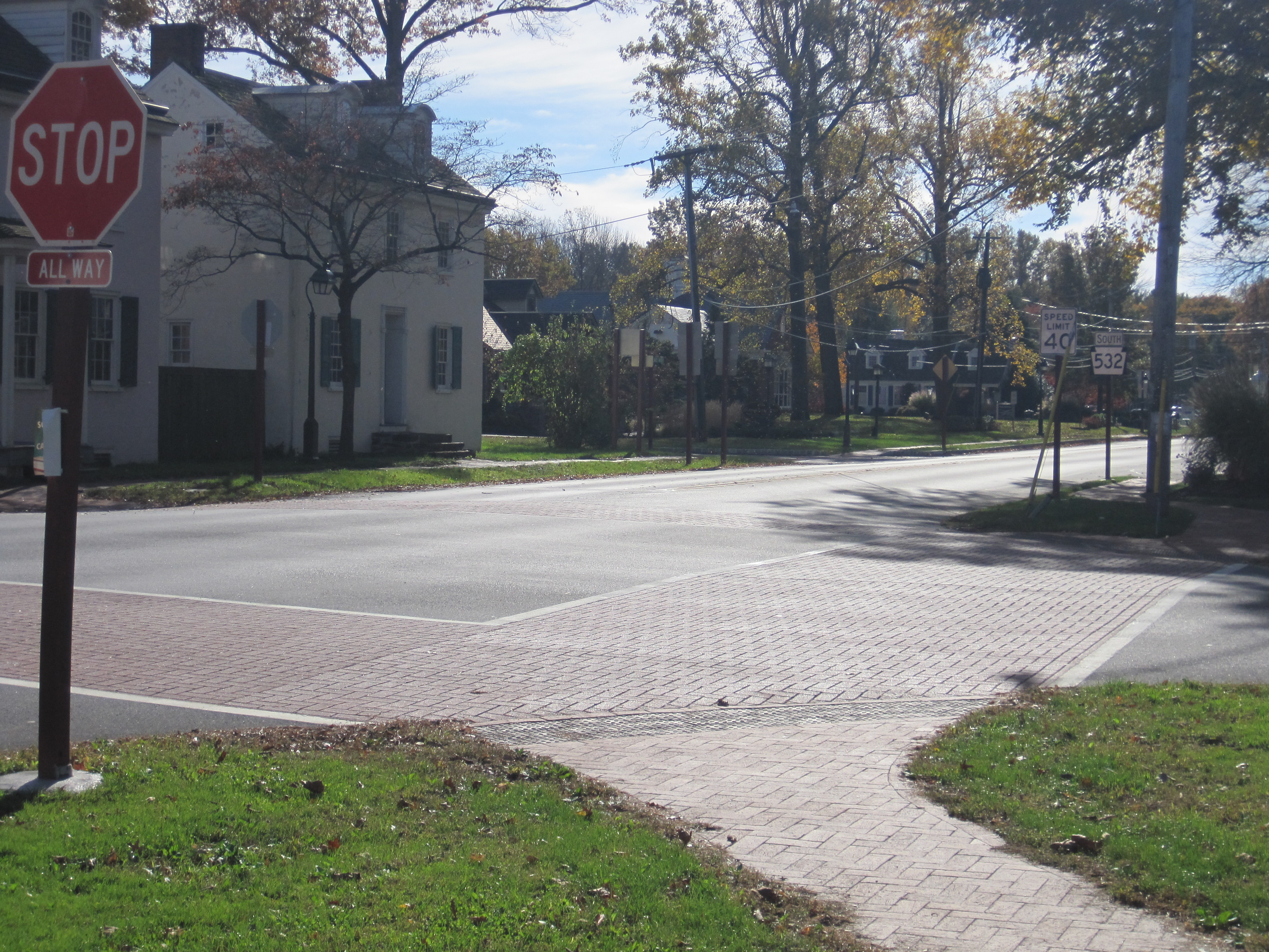 The northern terminus of PA Route 532 at PA Route 32 in the village of Washington Crossing, Pennsylvania.